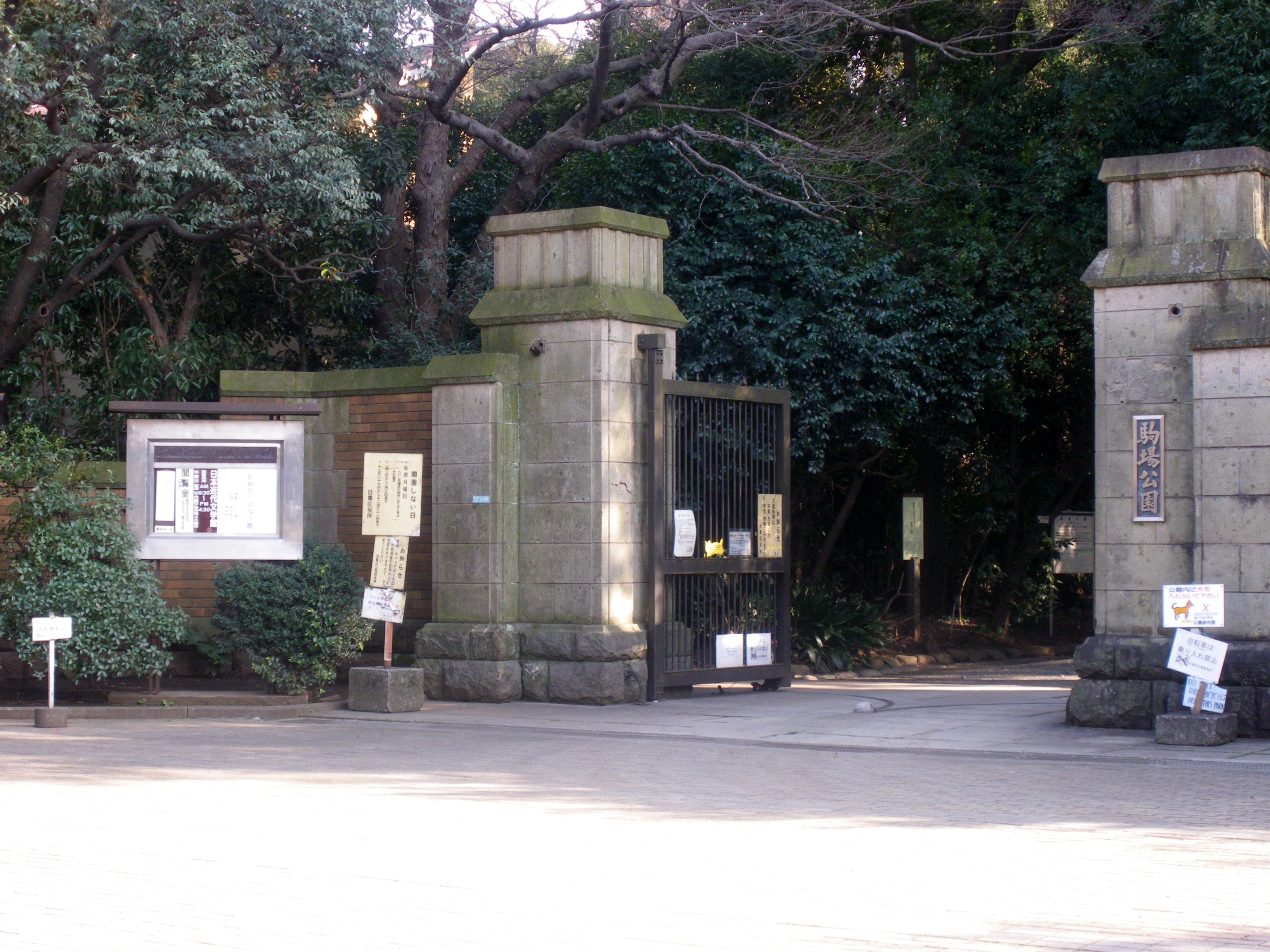 the entrace of Komaba Park (Meguro,Tokyo)